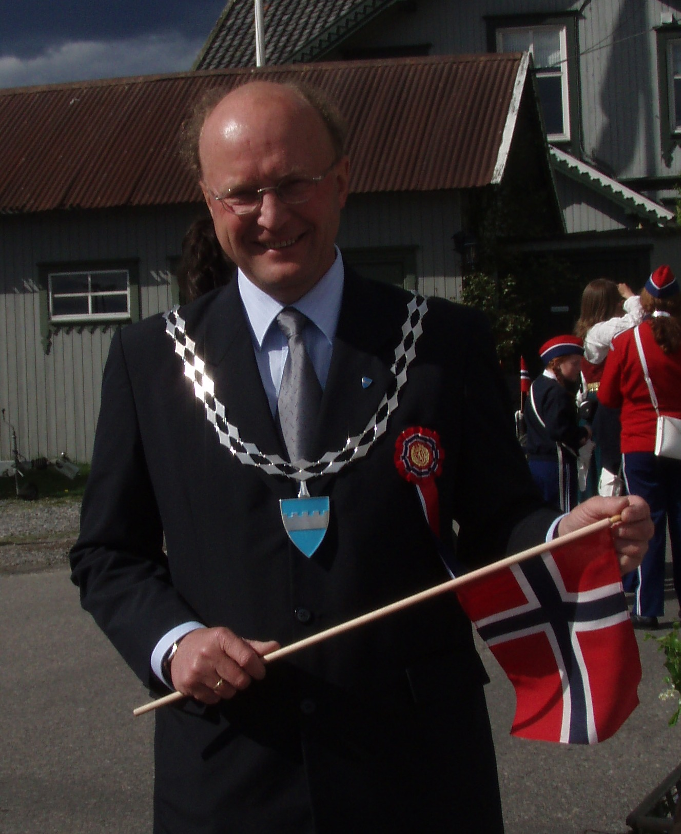 Thore Vestby on May 17 2007